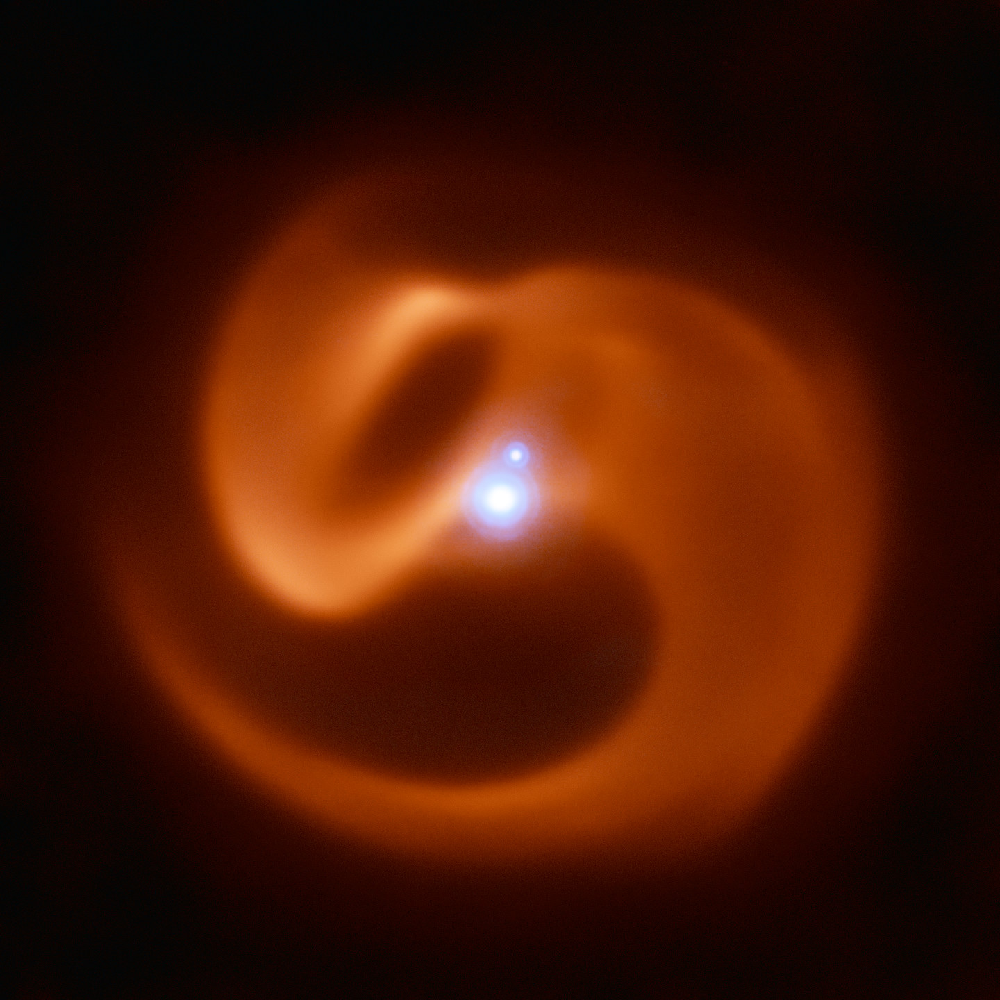 The VISIR instrument on ESO’s VLT captured this stunning image of a newly-discovered massive binary star system. Nicknamed Apep after an ancient Egyptian deity, it could be the first gamma-ray burst progenitor to be found in our galaxy. Apep’s stellar winds have created the dust cloud surrounding the system, which consists of a binary star with a fainter companion. With 2 Wolf-Rayet stars orbiting each other in the binary, the serpentine swirls surrounding Apep are formed by the collision of two sets of powerful stellar winds, which create the spectacular dust plumes seen in the image. The reddish pinwheel in this image is data from the VISIR instrument on ESO’s Very Large Telescope (VLT), and shows the spectacular plumes of dust surrounding Apep. The blue sources at the centre of the image are a triple star system — which consists of a binary star system and a companion single star bound together by gravity. Though only two star-like objects are visible in the image, the lower source is in fact an unresolved binary Wolf-Rayet star. The triple star system was captured by the NACO adaptive optics instrument on the VLT.